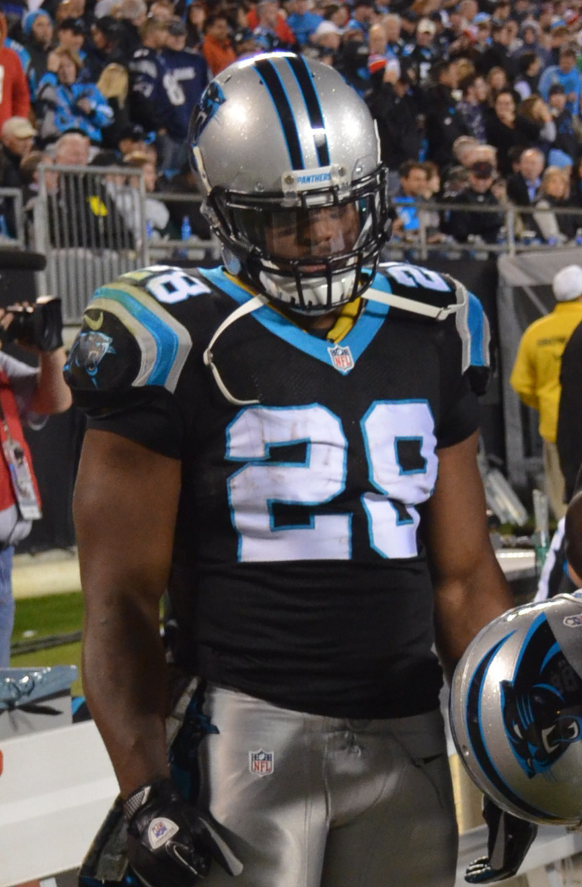 Carolina Panthers running back, Jonathan Stewart, playing against the New England Patriots on November 18, 2013.